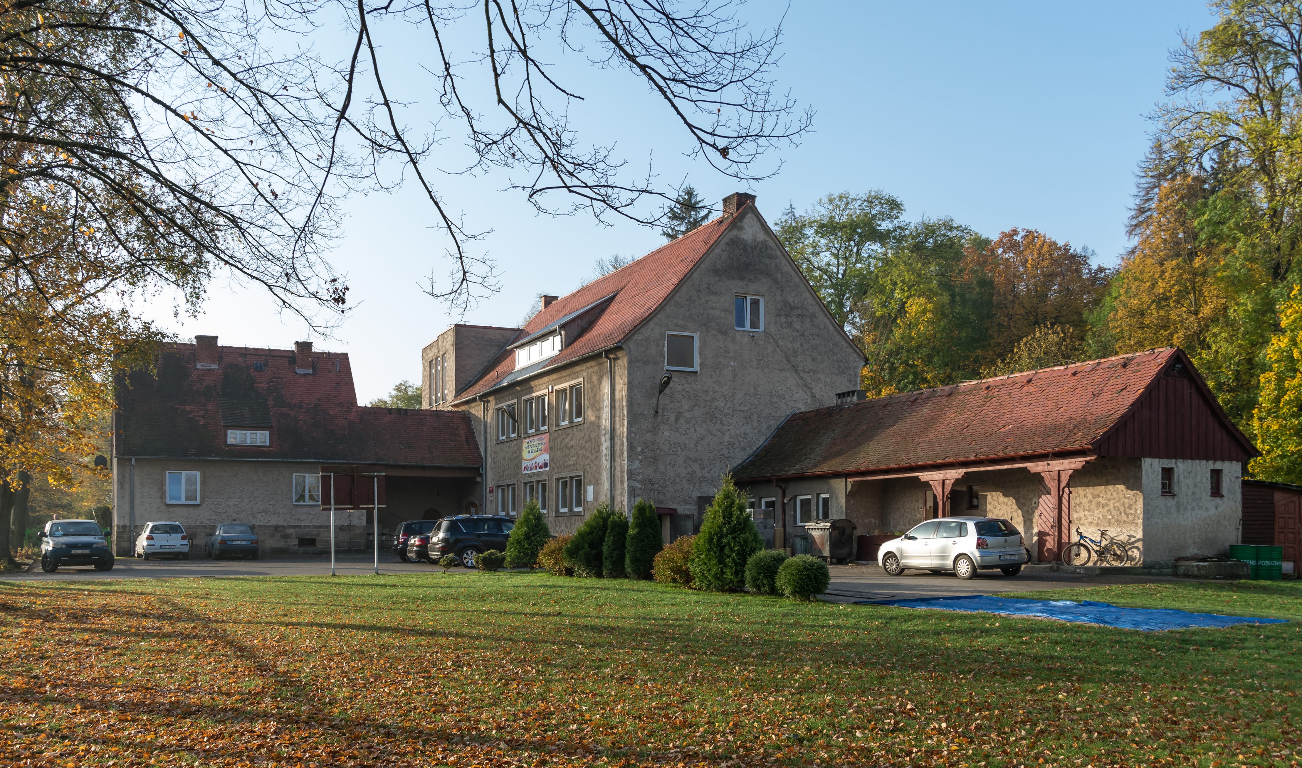 Elementary school in Żelazno